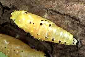 Pupa of Common Jezebel(Delias eucharis).